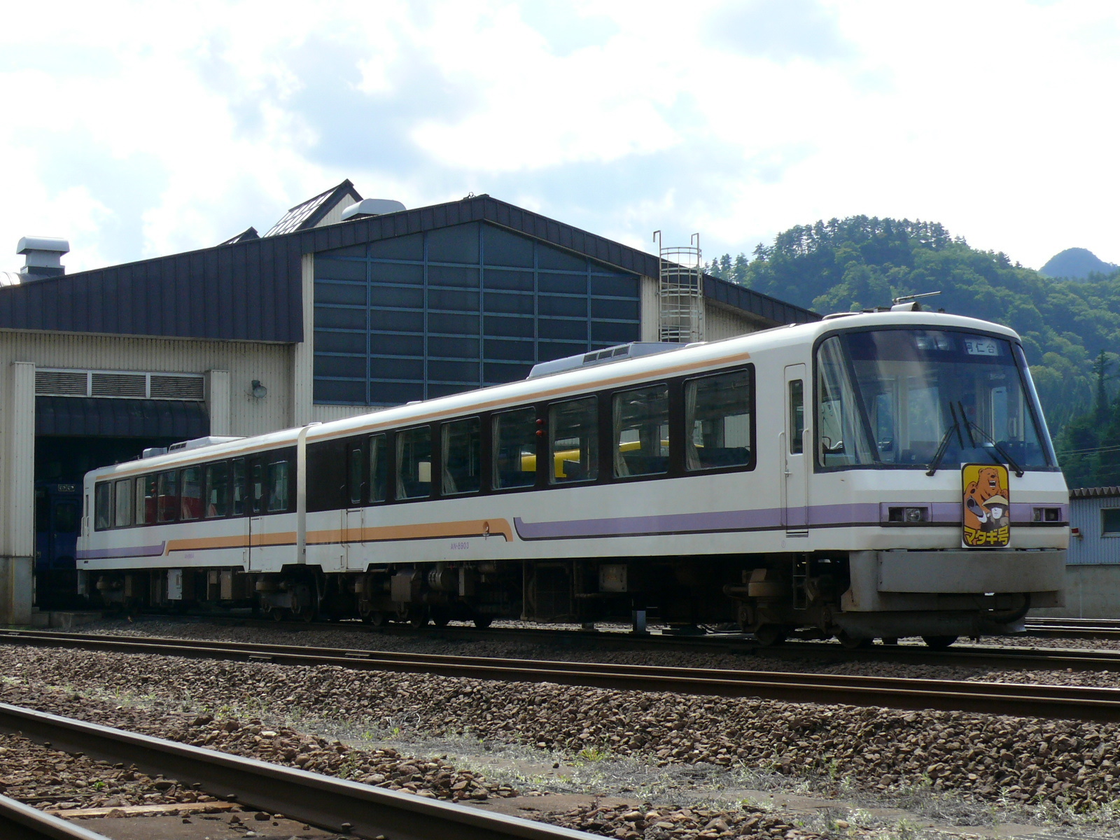 Akita Nairiku Jūkan Railway Type AN-8903+8904 Train(Akita-prefecture,Japan).